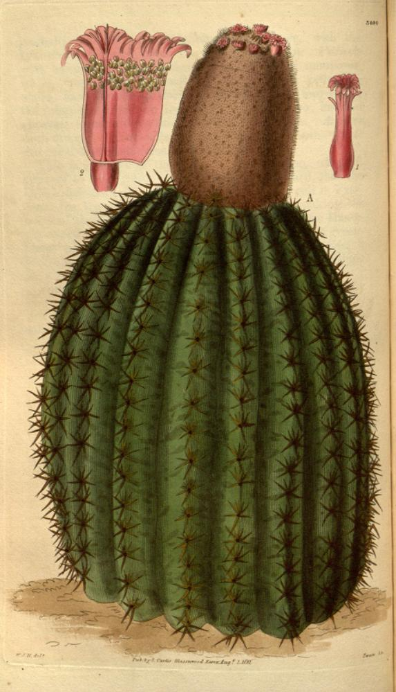 Illustration of Melocactus intortus (Orig. Melocactus communis)